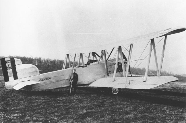 XCO-5 and Lt Macready. LT. J.A. MACREADY SET ALTITUDE RECORDS WITH THIS XCO-5 AIRCRAFT. BUILT AT McCOOK FILED IN 1923.